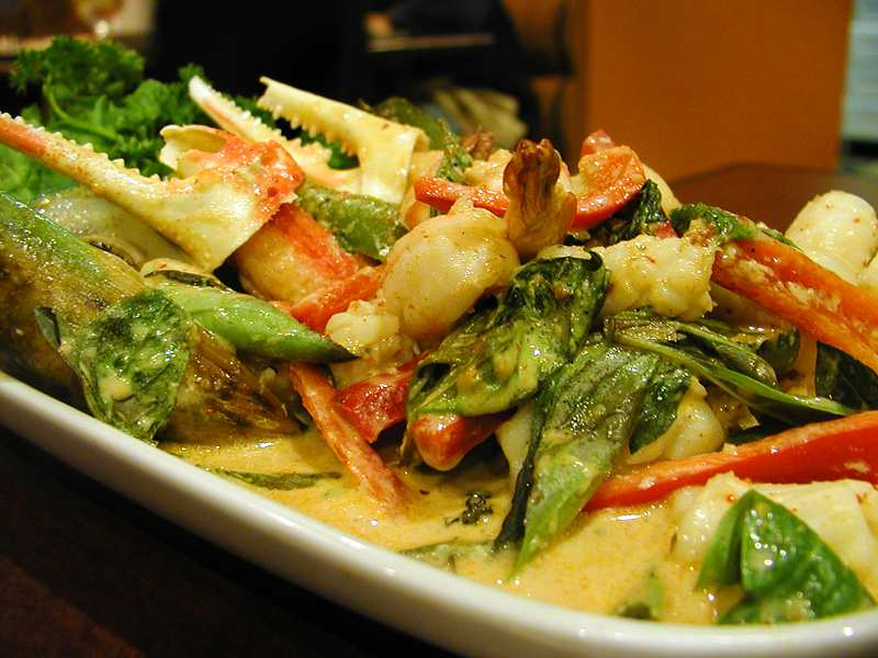 Thai Food